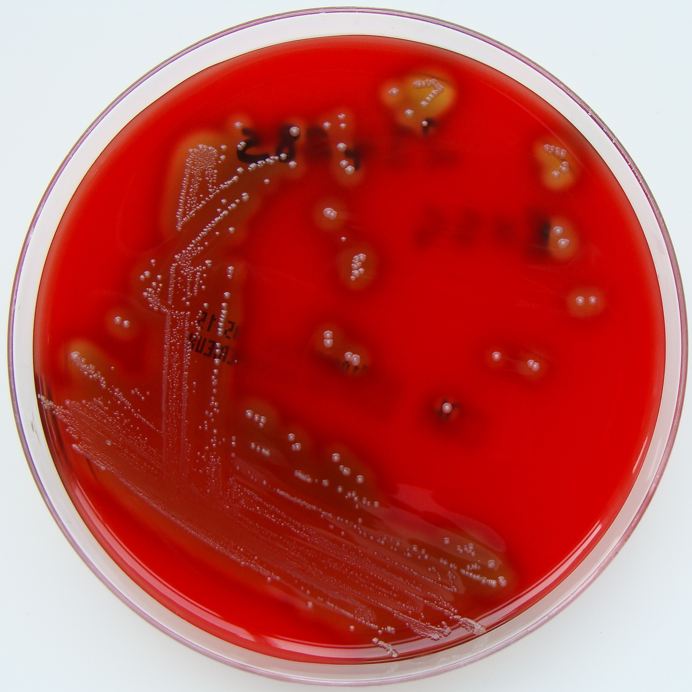 Streptococcus pyogenes (Lancefield Group A) on Columbia Horse Blood Agar